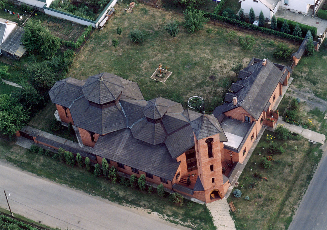 Encs - Hungary - Europe (Architect: Csaba Bodonyi)